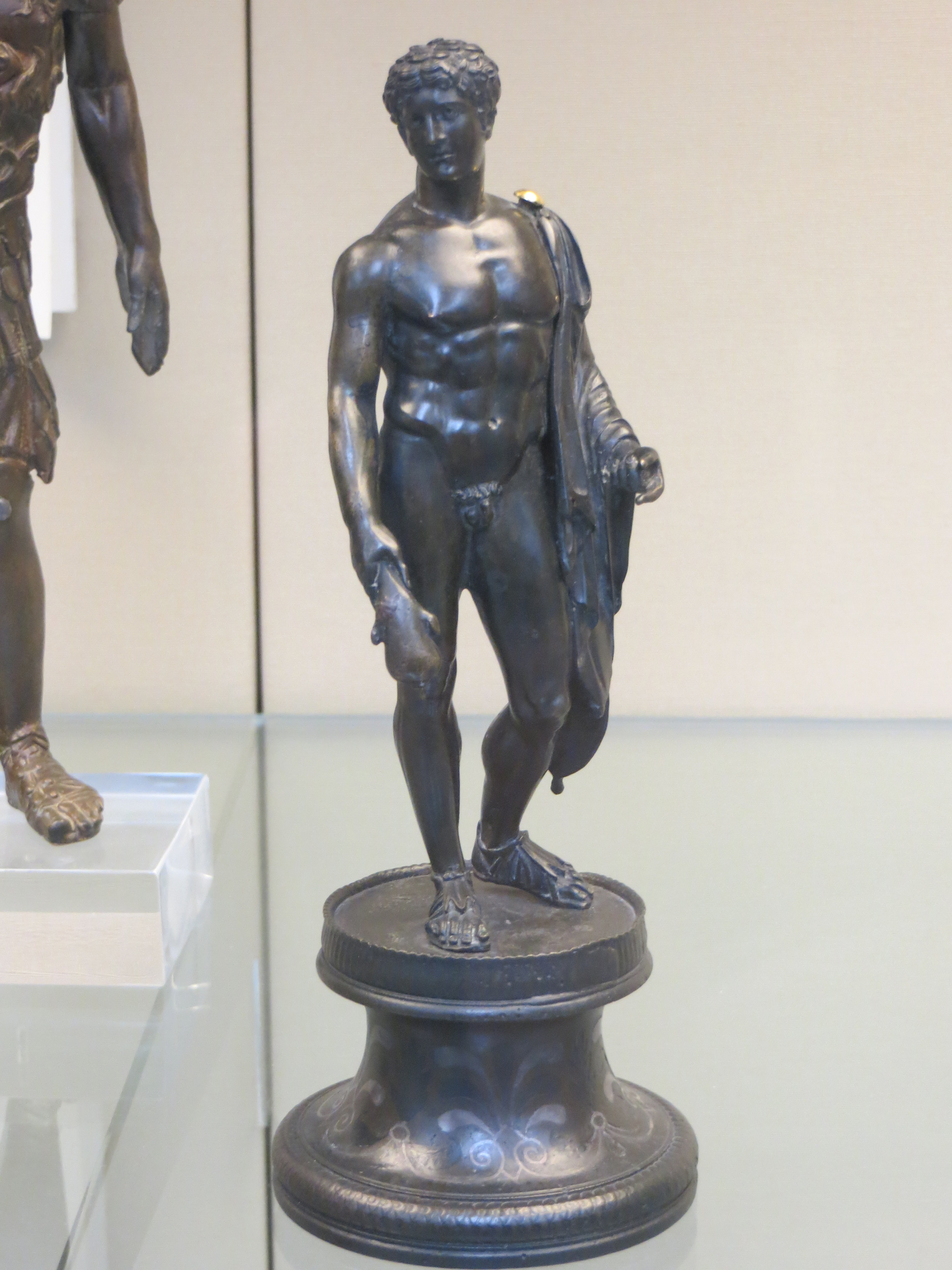 Roman statuette from Huis, France in the British Museum. 120–140 AD. Height: 21 centimetres; Width: 8 centimetres. GR 1824,0460.4